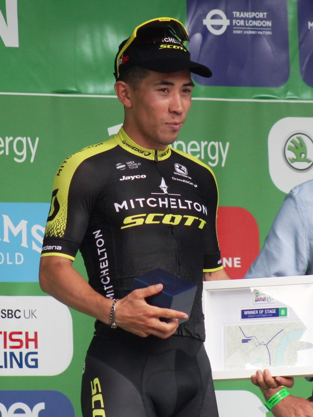 Caleb Ewan won the sprint at the end of the eight and final stage of the 2018 OVO Energy Tour of Britain which was in London.